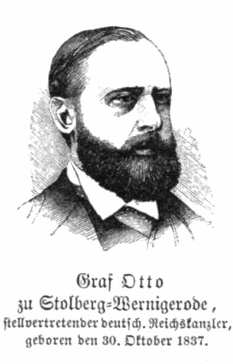 Earl Otto zu Stolberg-Wernigerode